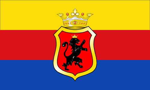 Flag of the town of Papenburg, Germany